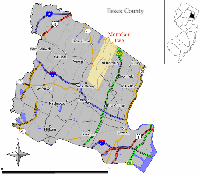 Source: Jim Irwin Original work by Jim Irwin, December 2005.